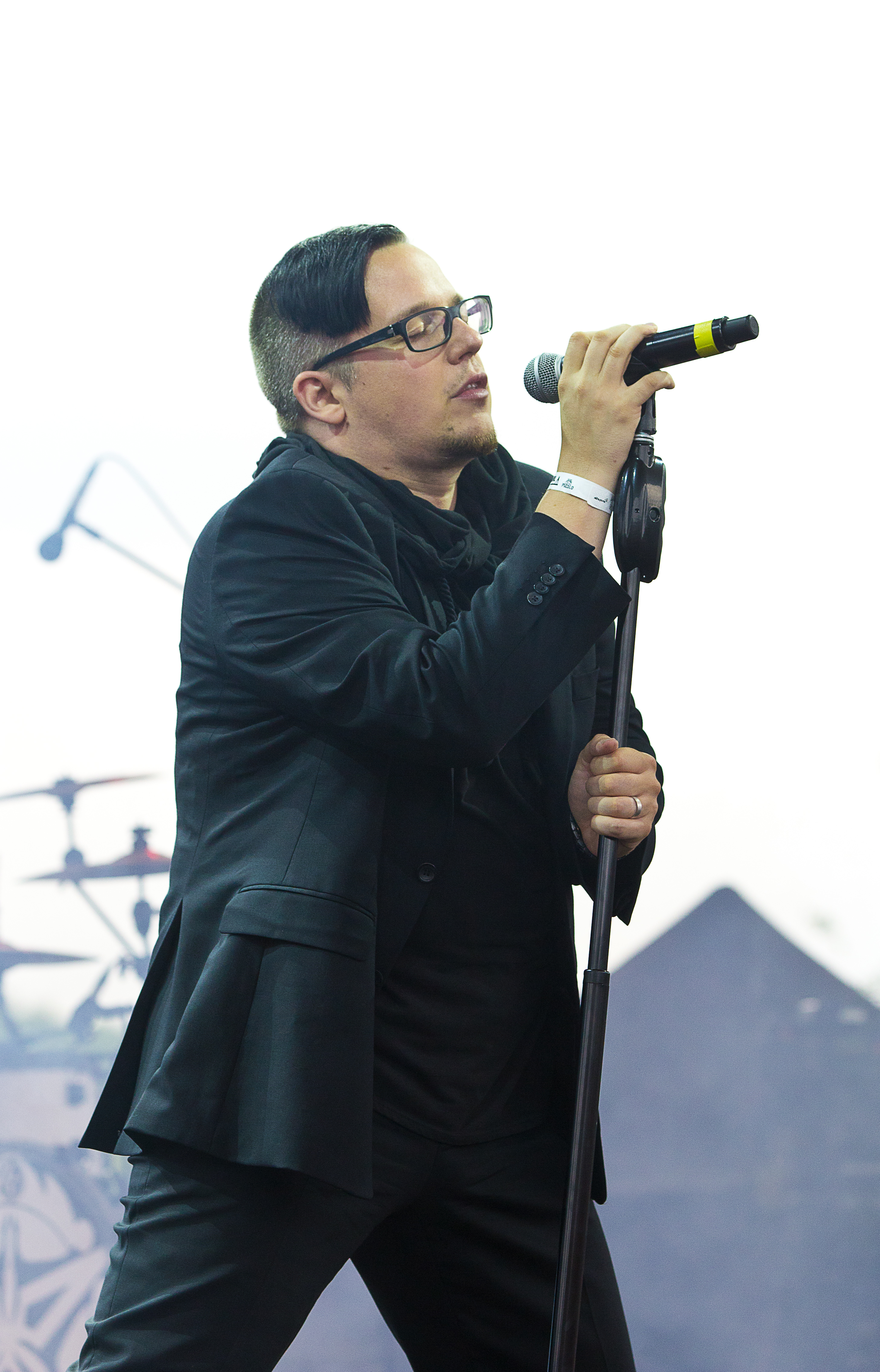 The Austrian electro rock band L’Âme Immortelle at the Blackfield festival 2015 in Gelsenkirchen/Germany.